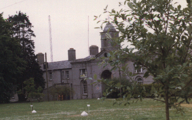 Irish Army Apprentice School entrance archway. Formerly Devoy Barracks